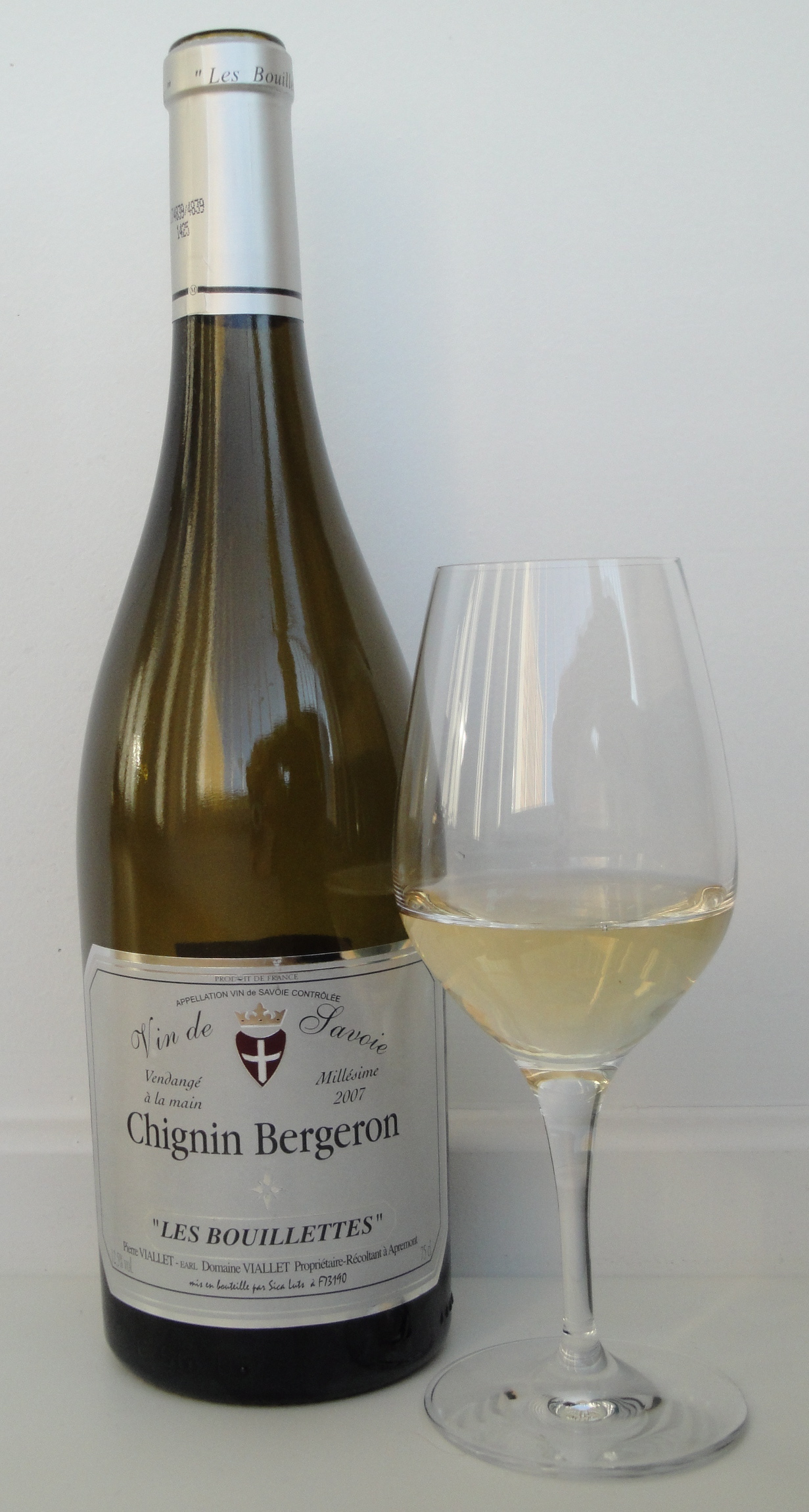 Chignin Bergeron 2007, a wine from Savoie (Savoy), France produced from Roussanne grapes